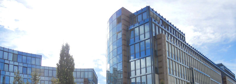 Circon Verlag GmbH Office